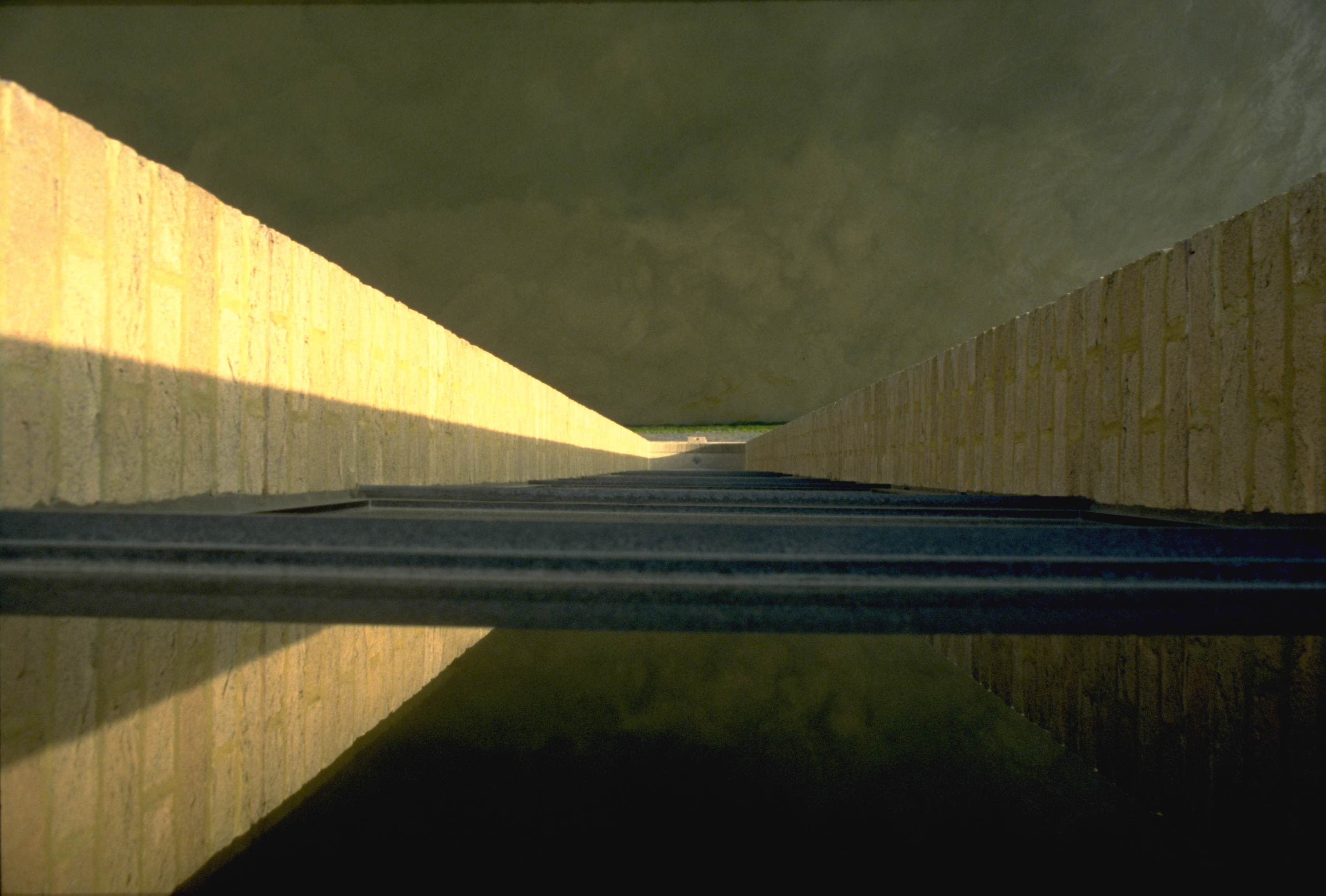 Minerva House is on the south bank of the Thames alongside Southwark Cathedral. At the time of this photograph in c1986 it was the corporate headquarters of Grindlays Bank.